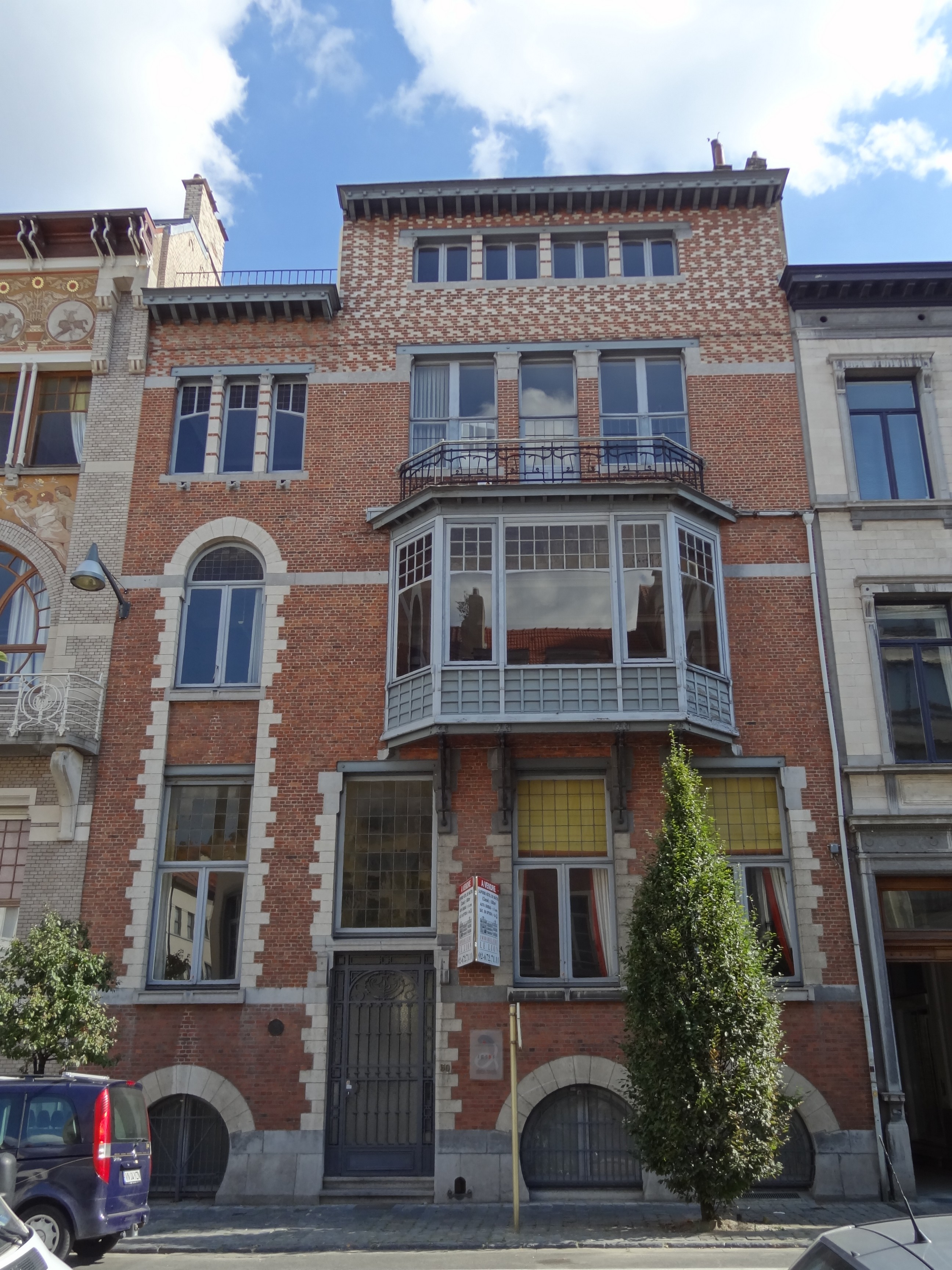 Defacqzstraat 50, Brussels